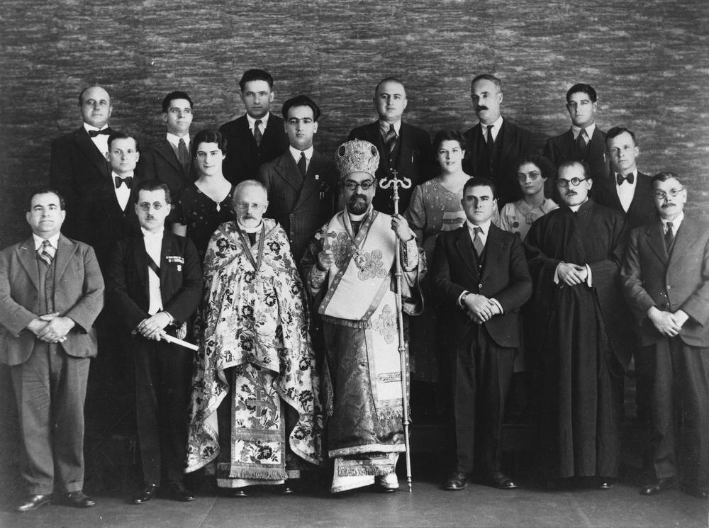 Creator: Unidentified; Poulsen Studios Location: Charlotte Street, Brisbane, Queensland Description:Front row: Jim Mavromatis, Mr. Politinski (conductor), Canon Garland, Archbishop Timotheos (Greek Orthodox Metropolitan in Australia), Christy Freeleague, Father Papadopoulos (St George's priest), E. Venlis. Second row: George Trovas, Maria Anthony Freeleagus Kyriakos Koutsakos, Antigone Peter Freeleagus, Zoe Dragons, Manuel Trovas. Third row: Xenophon Karandreou, Frank Freeleagus, Peter Drakakis, Jim Paschalites, Sophocles Trovas, Charlie Peter Freeleagus. (Information supplied with image) View this image at the State Library of Queensland: Information about State Library of Queensland’s collection